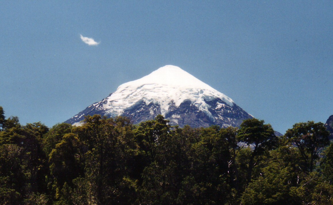 Lanin volcano, Argentina-Chile